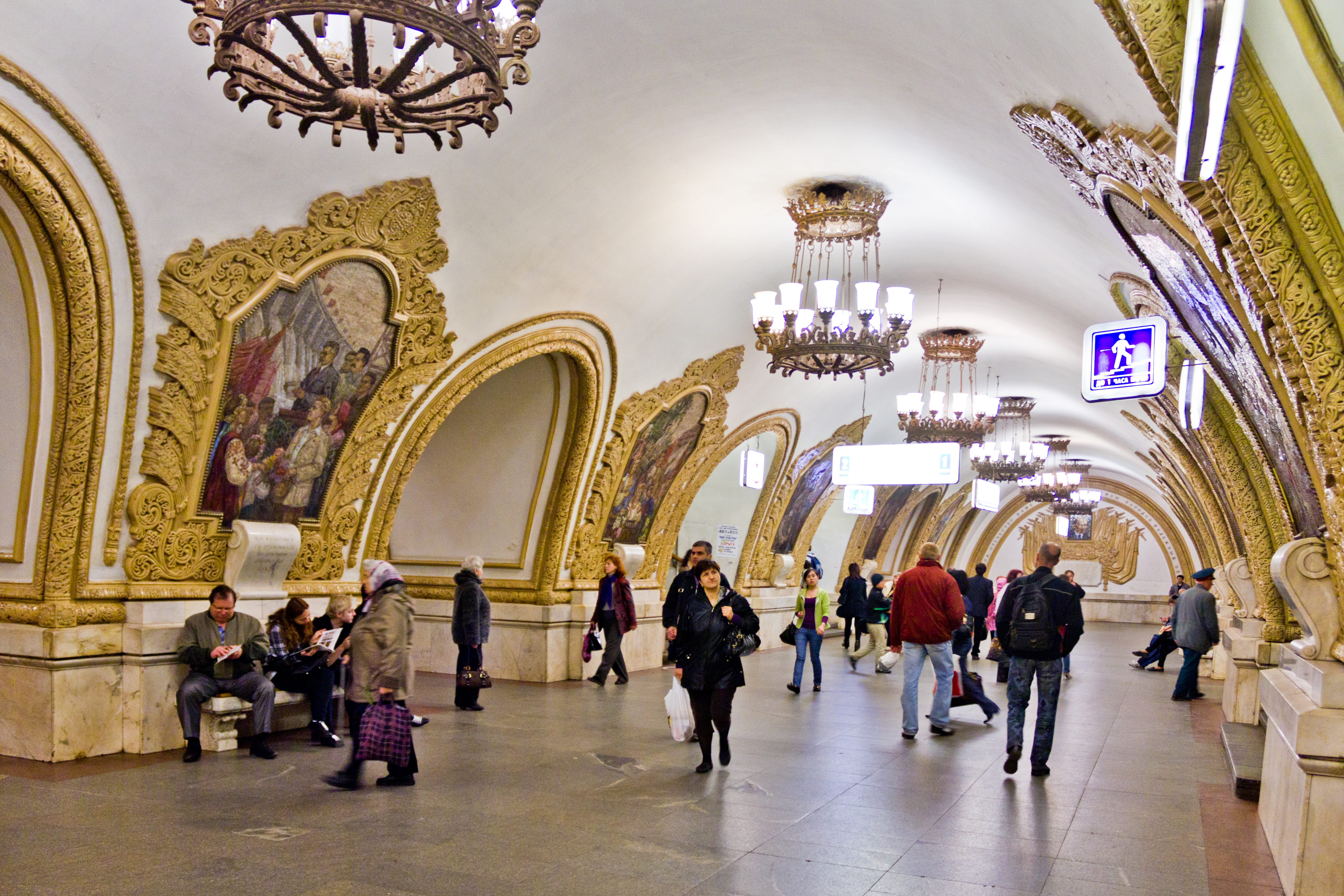 Kievskaya-Koltsevaya Moscow Metro station.